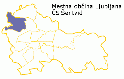 author: Navportus 18:43, 26 June 2007 (UTC) description: Map of Šentvid, part of Ljubljana